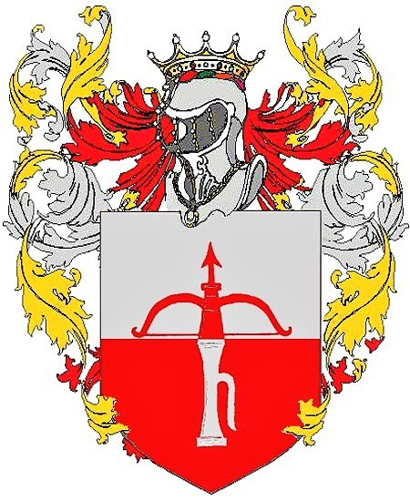 Coat of Arms of the House of Balestrieri, created Counts by the Duke of Parma and Piacenza in 1795